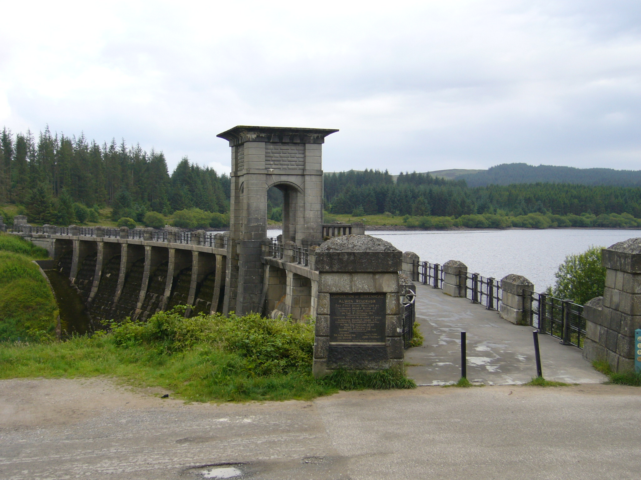 The Alwen Dam and Reservoir in Conwy County Borough, North Wales. The "first stone" can be seen in the centre of the picture. Part of its text is reproduced below and the full text can be seen here.